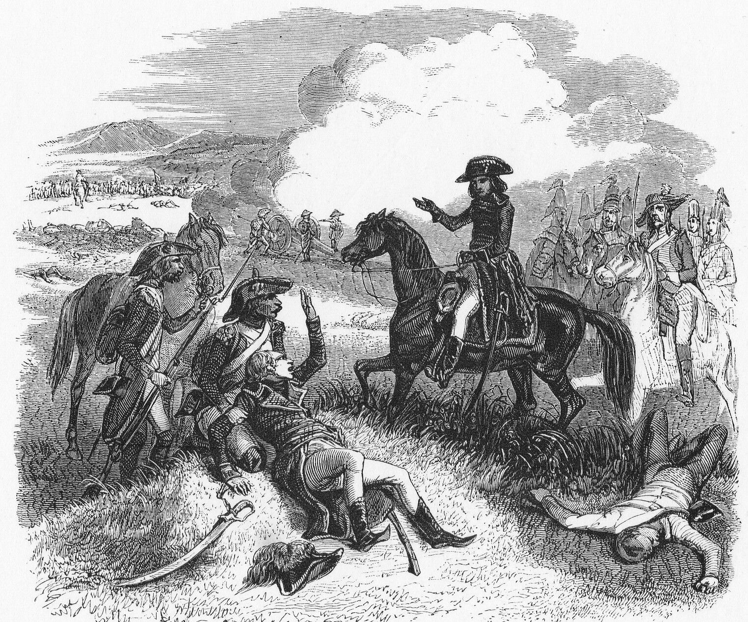 General Bonaparte e general Causse at the battle of Dego